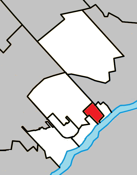 Location of Lorraine, Quebec within Thérèse-De Blainville Regional County Municipality.